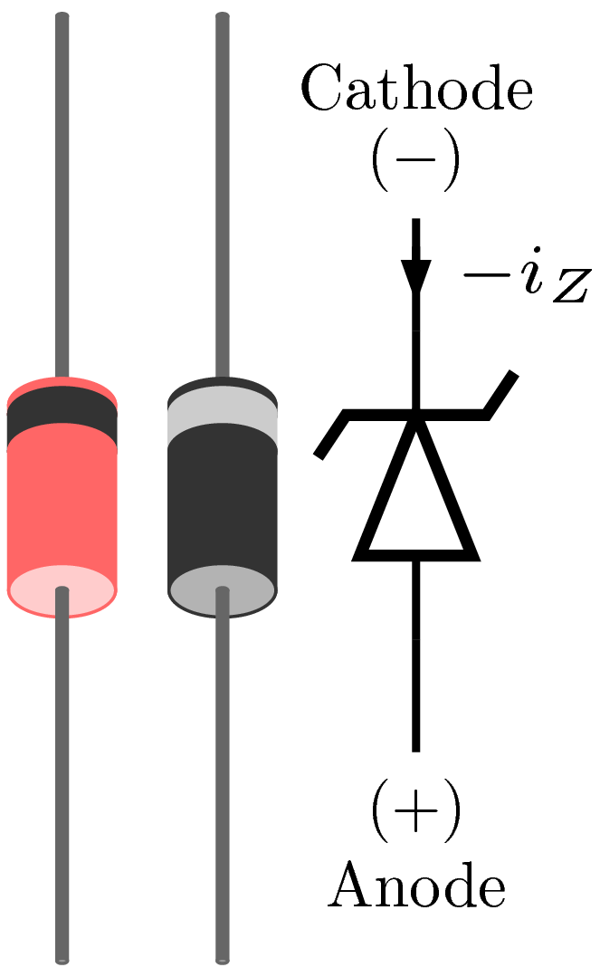 Shows Zener diode symbol in same alignment as depictions of some typical diode packages. Anode and cathode are shown, and the reverse current and voltage are shown.